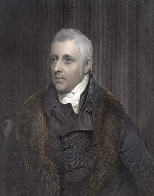 Dudley Ryder, 1st Earl of Harrowby (1762-1847)